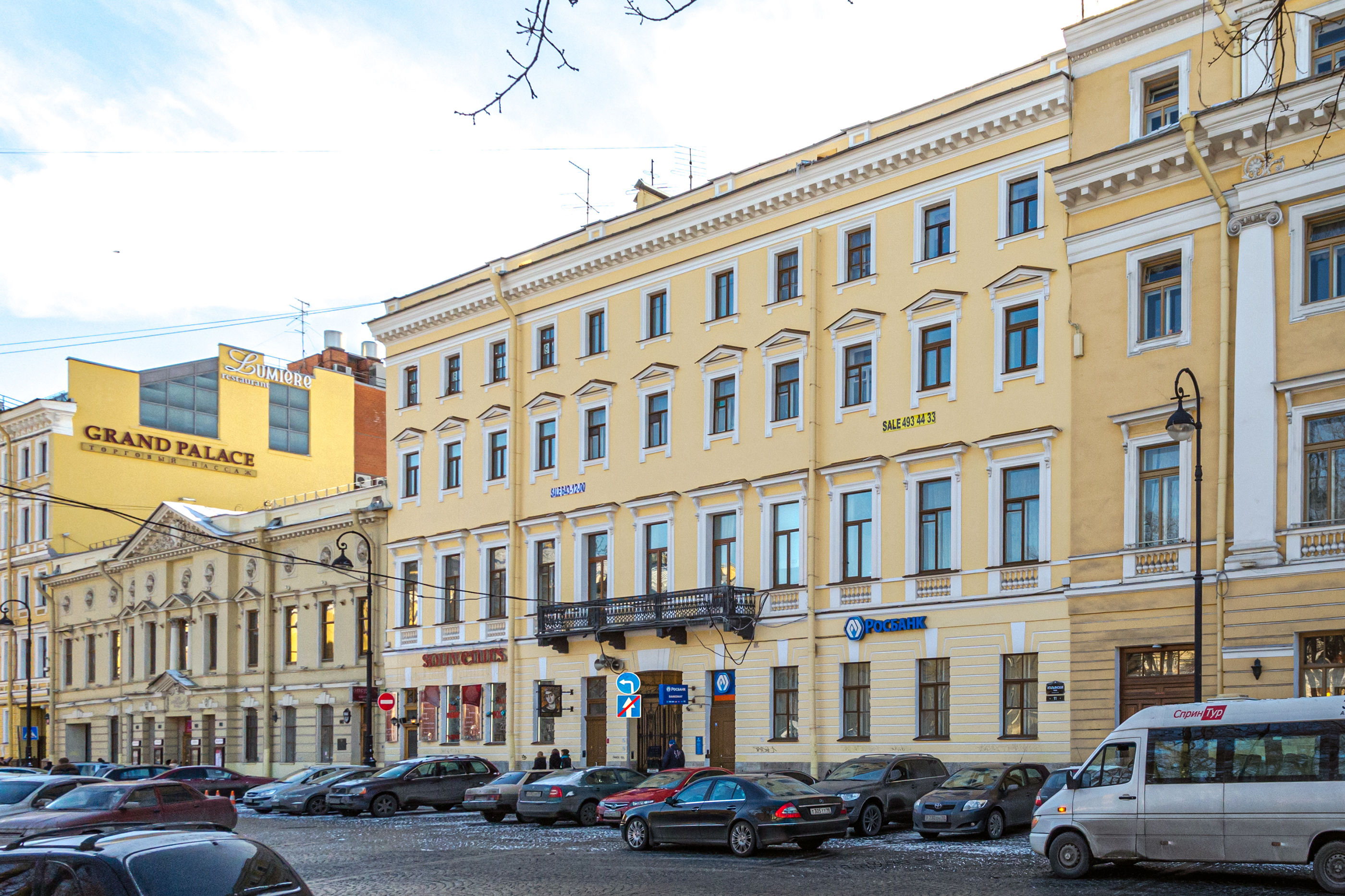 11, Italianskaya Street in Saint Petersburg